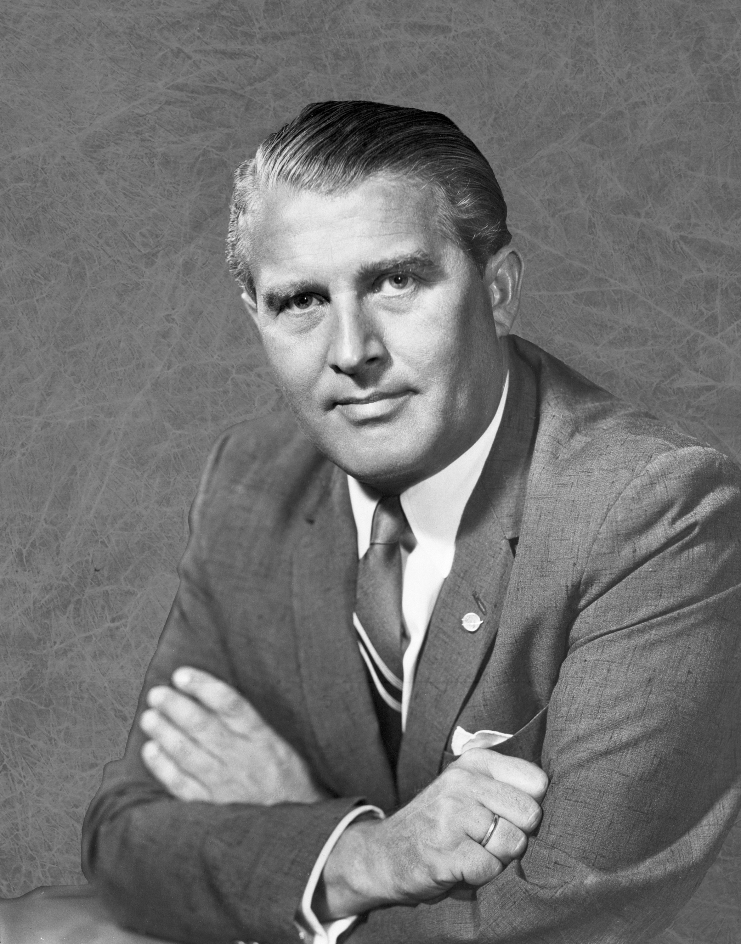 Dr. Wernher von Braun served as Marshall Space Flight Center's first director from July 1, 1960 until January 27, 1970, when he was appointed NASA Deputy Associate Administrator for Planning. Following World War II, Dr. von Braun and his German colleagues arrived in the United States under Project Paperclip to continue their rocket development work. In 1950, von Braun and his rocket team were transferred from Ft. Bliss, Texas to Huntsville, Alabama to work for the Army's rocket program at Redstone Arsenal and later, NASA's Marshall Space Flight Center. Under von Braun's leadership, Marshall developed the Saturn V launch vehicle which took Apollo astronauts to the moon.